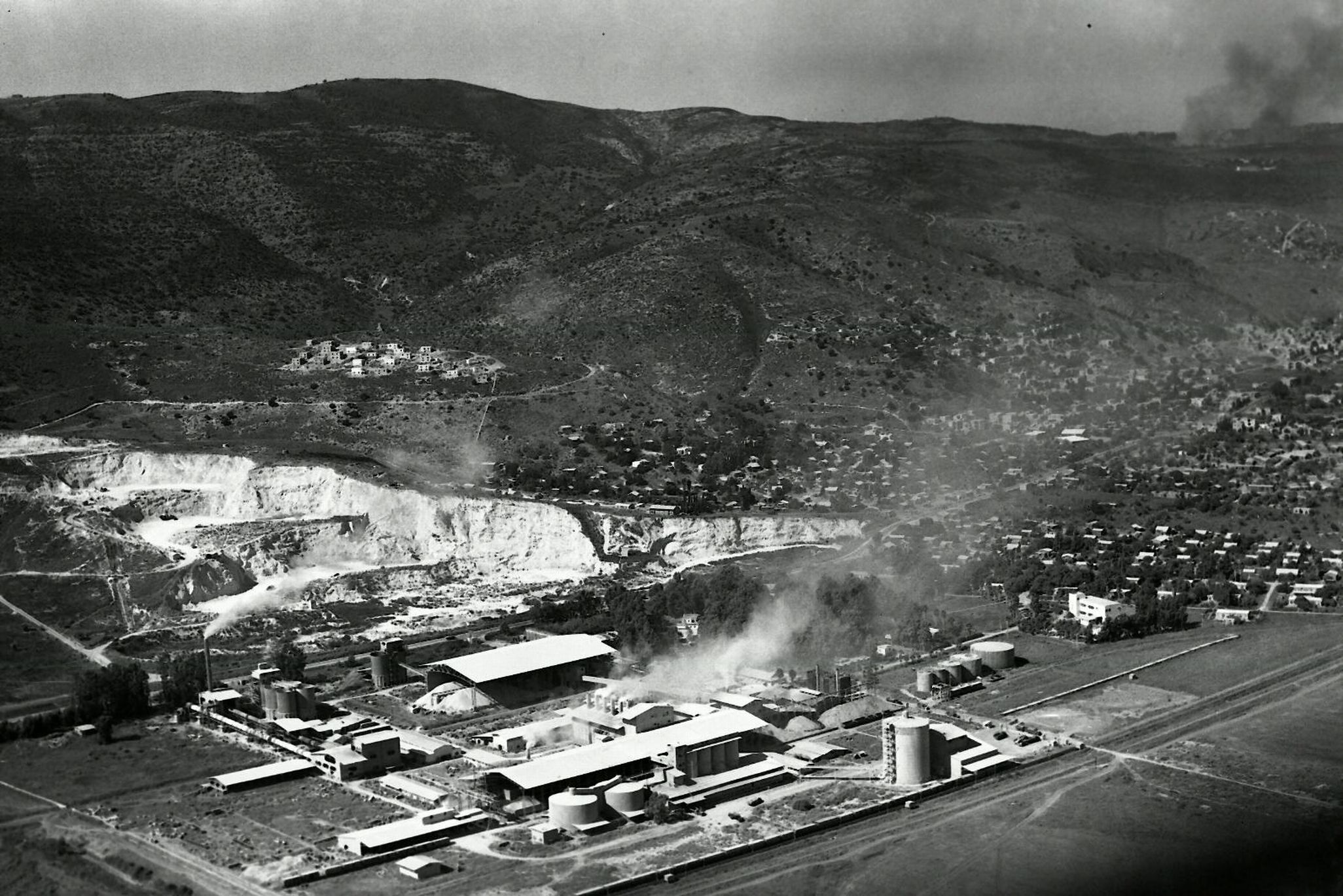 Aerial View of Nesher plant near Haifa.